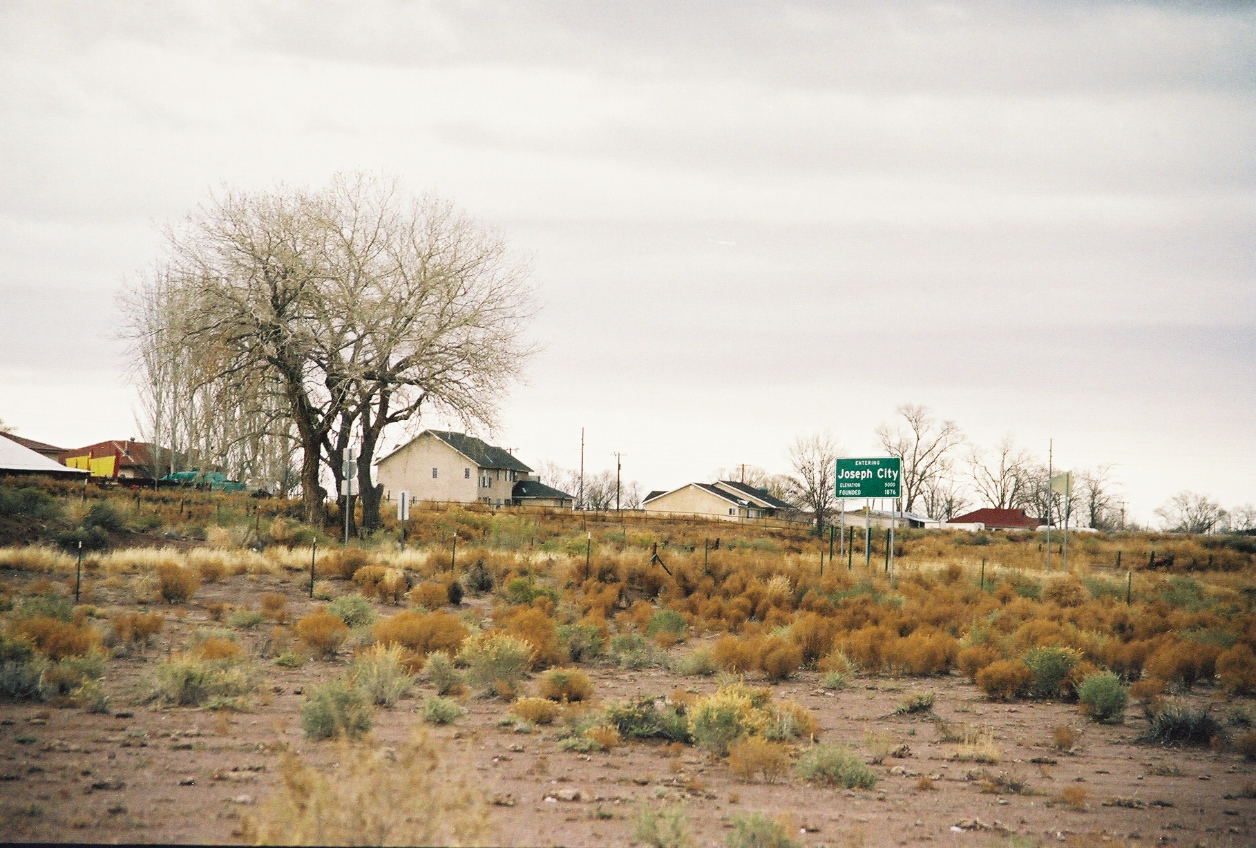 Photographed and uploaded by user:Geographer, November 28, 2004. A shot to capture the roadside landscape of Joseph City, AZ right off the ramp of the Interstate 40.